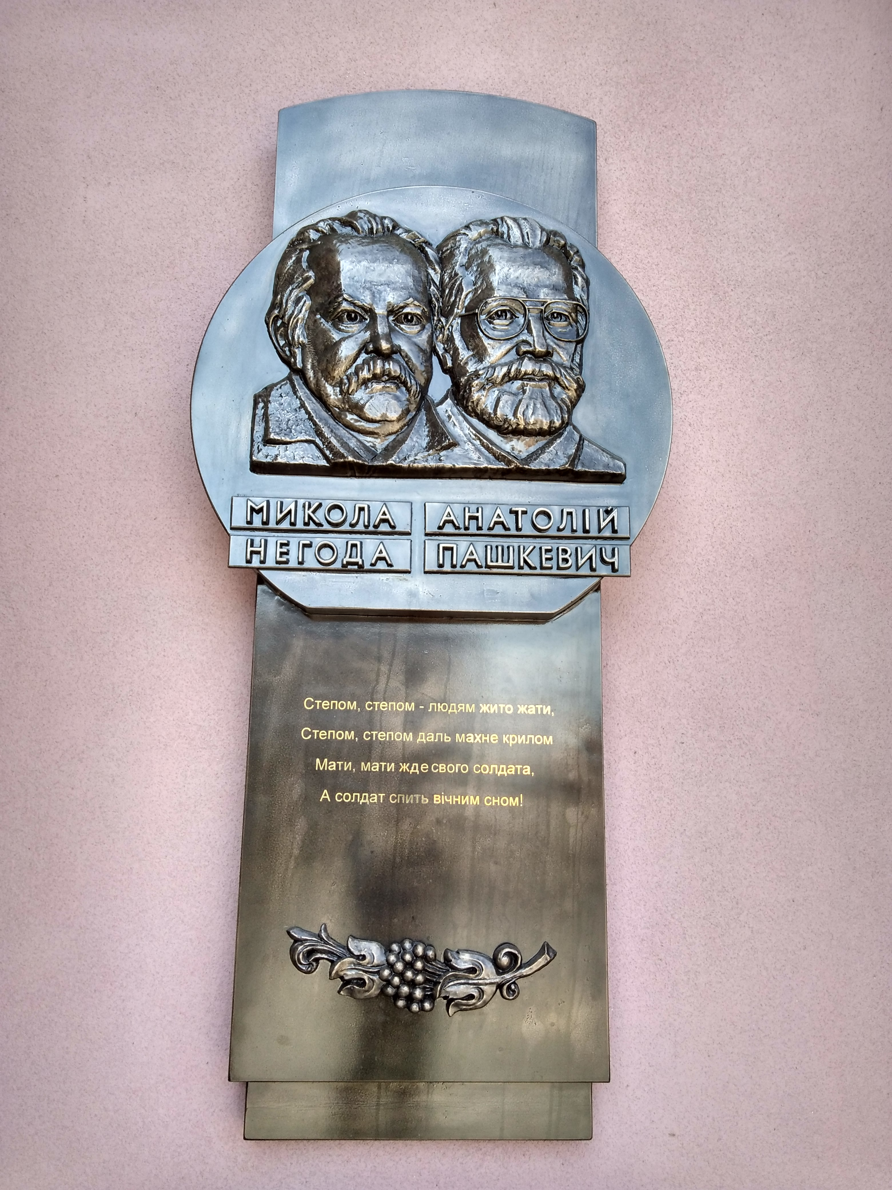 Cherkasy, Ukraine. The Commemorative plaque to Ukrainian artists Mykola Negoda & Anatoly Pashkevich